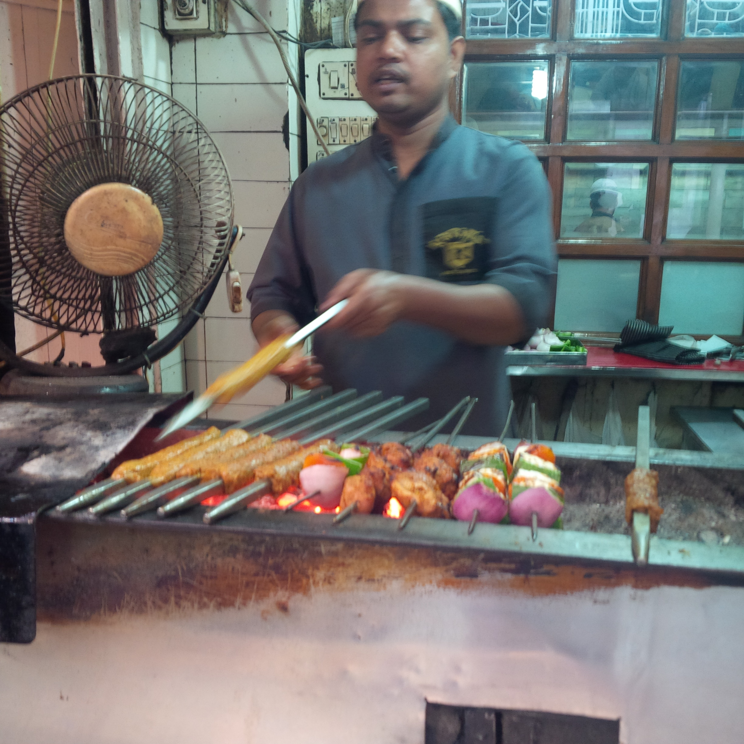 Karim's Hotel Chef cooking Mutton Seekh Kabab